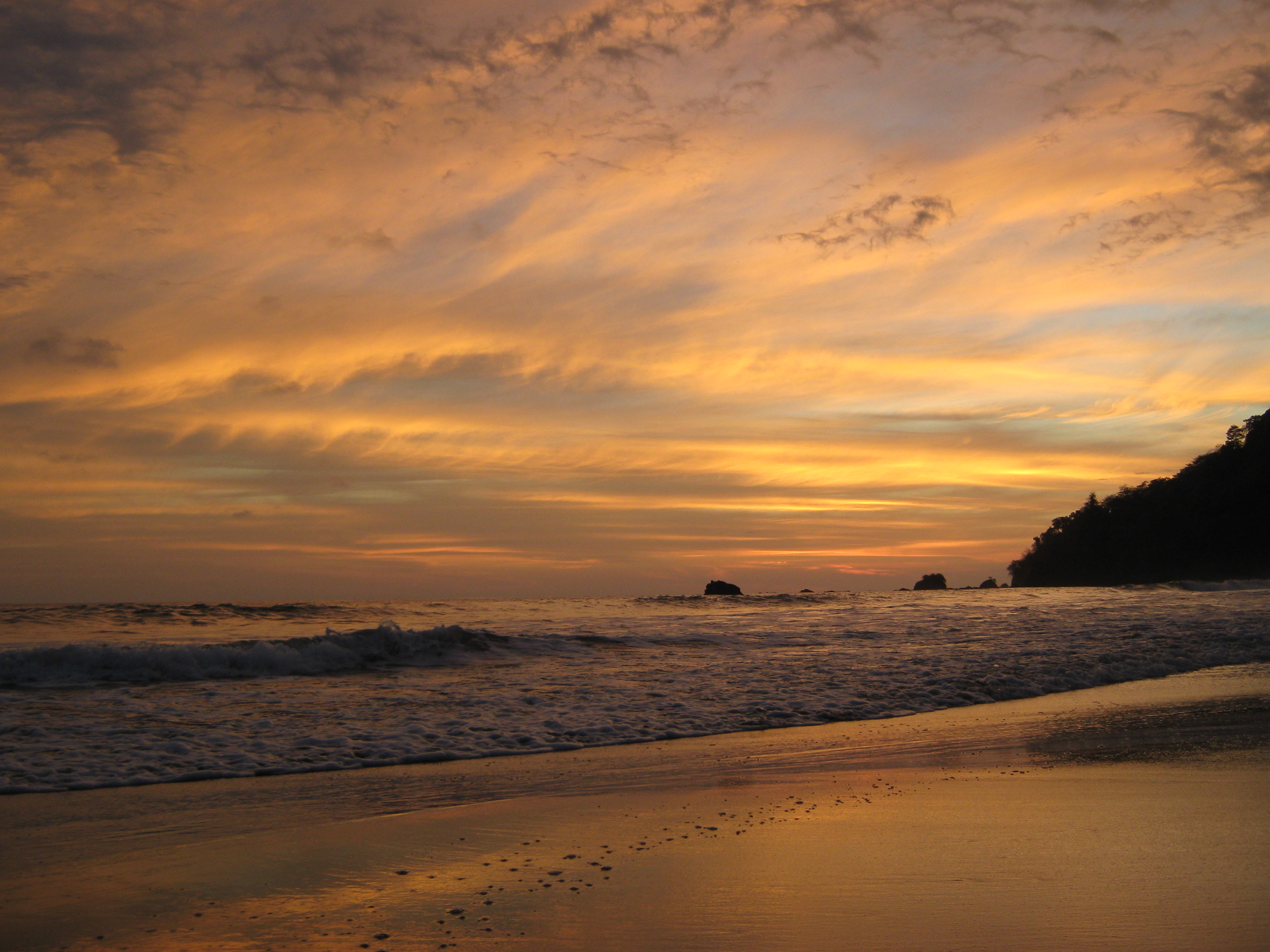 Sunset at Manuel Antonio, Costa Rica